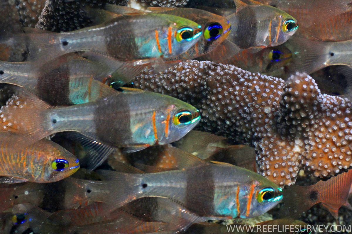 Girdled Cardinalfish, Taeniamia zosterophora, on the Great Barrier Reef, Queensland.